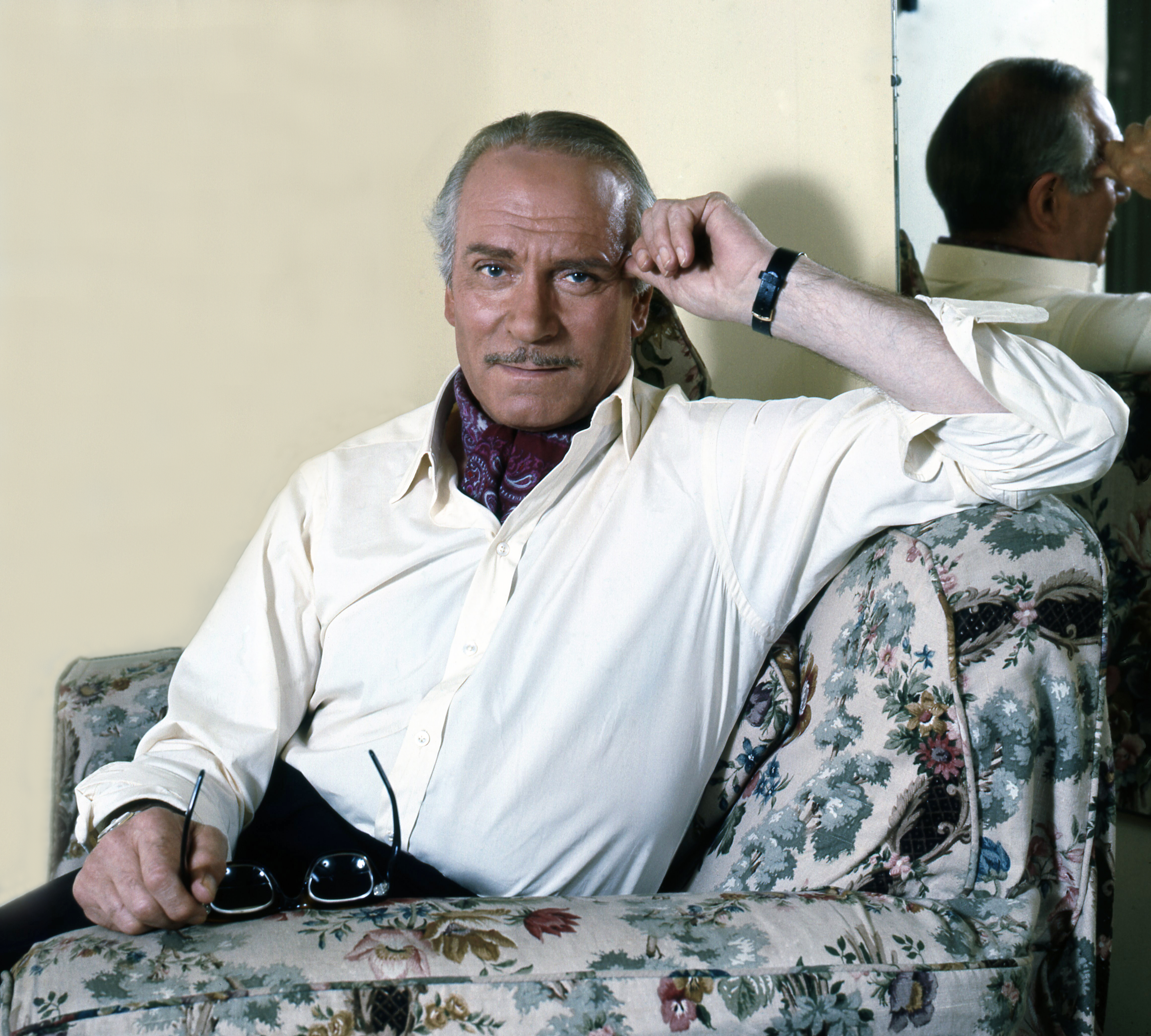 Lord Laurence Olivier taken in his dressing room on the set of Sleuth